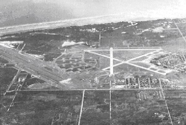 Southern view oriented photo (inverted image) of MacDill Airfield taken during World War II. Source: Active Air Force Bases Within the United States of America on 17 September 1982 USAF Reference Series, OFFICE OF AIR FORCE HISTORY UNITED STATES AIR FORCE WASHINGTON, D.C., 1989